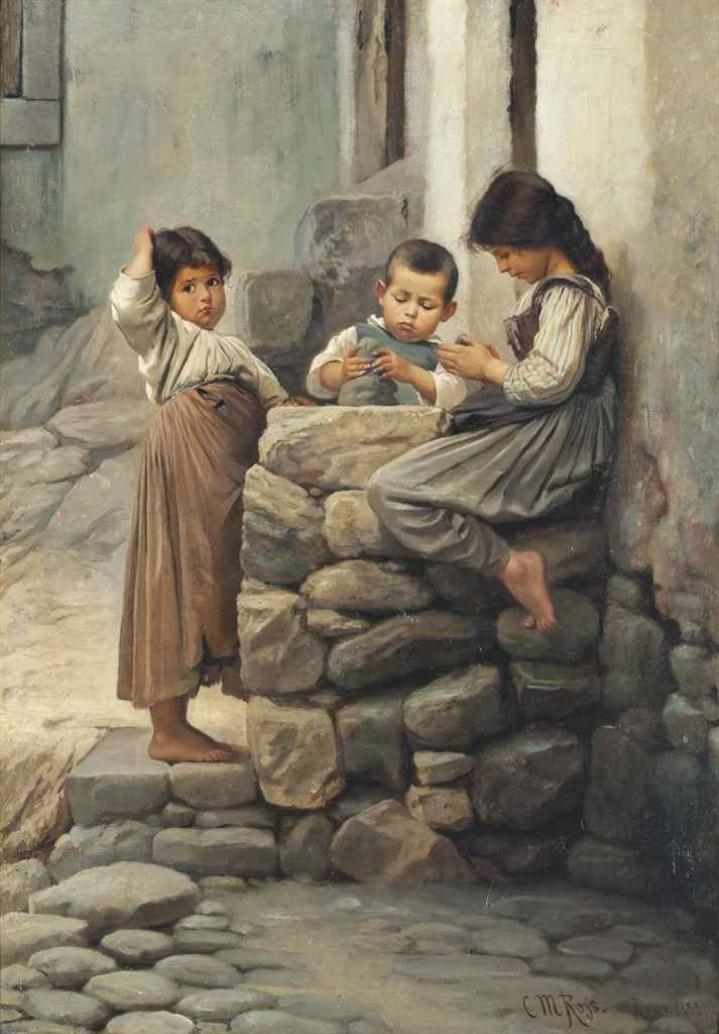 The little potters